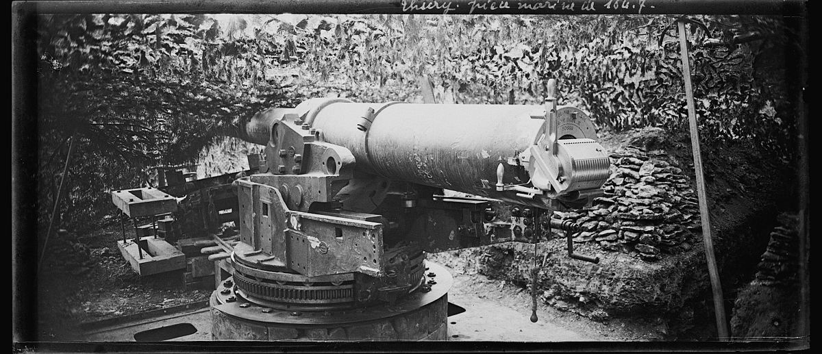 Panoramic view of a 164.7 mm naval gun on a built-up platform, under a camouflage net at Thury-en-Valois (Oise departement) in 1918.